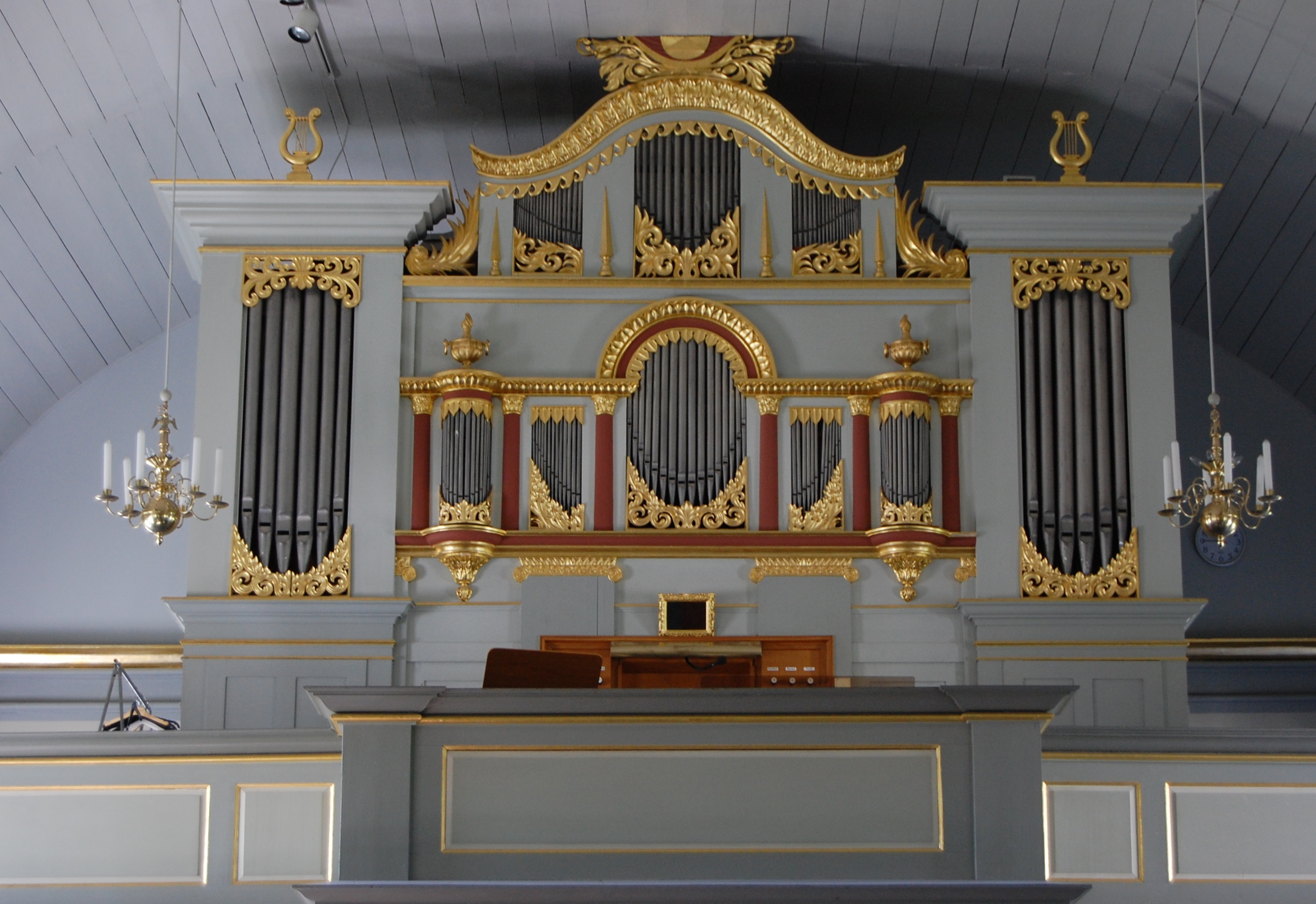 Hovmantorp Church.Organ.